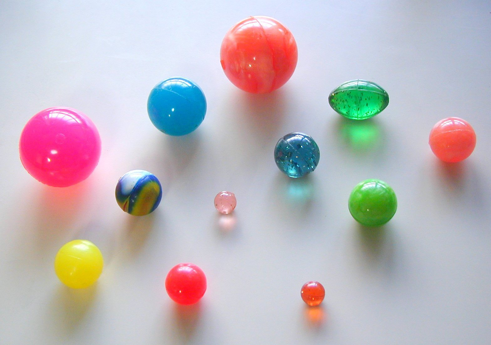 Colorful Super ball, home